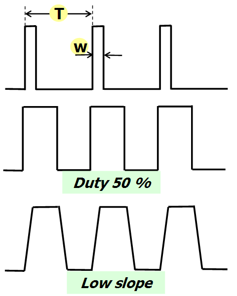 Clock signal